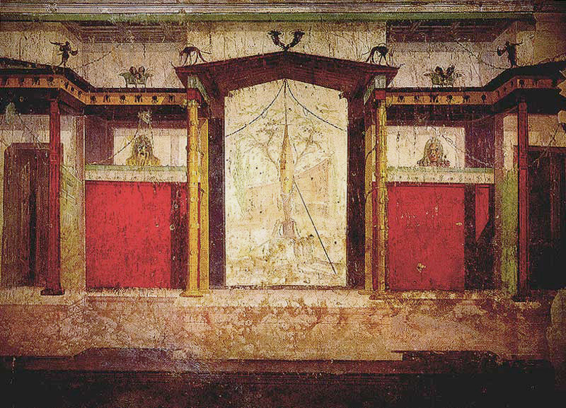 Roman fresco, House of Augustus, Palatine Hill